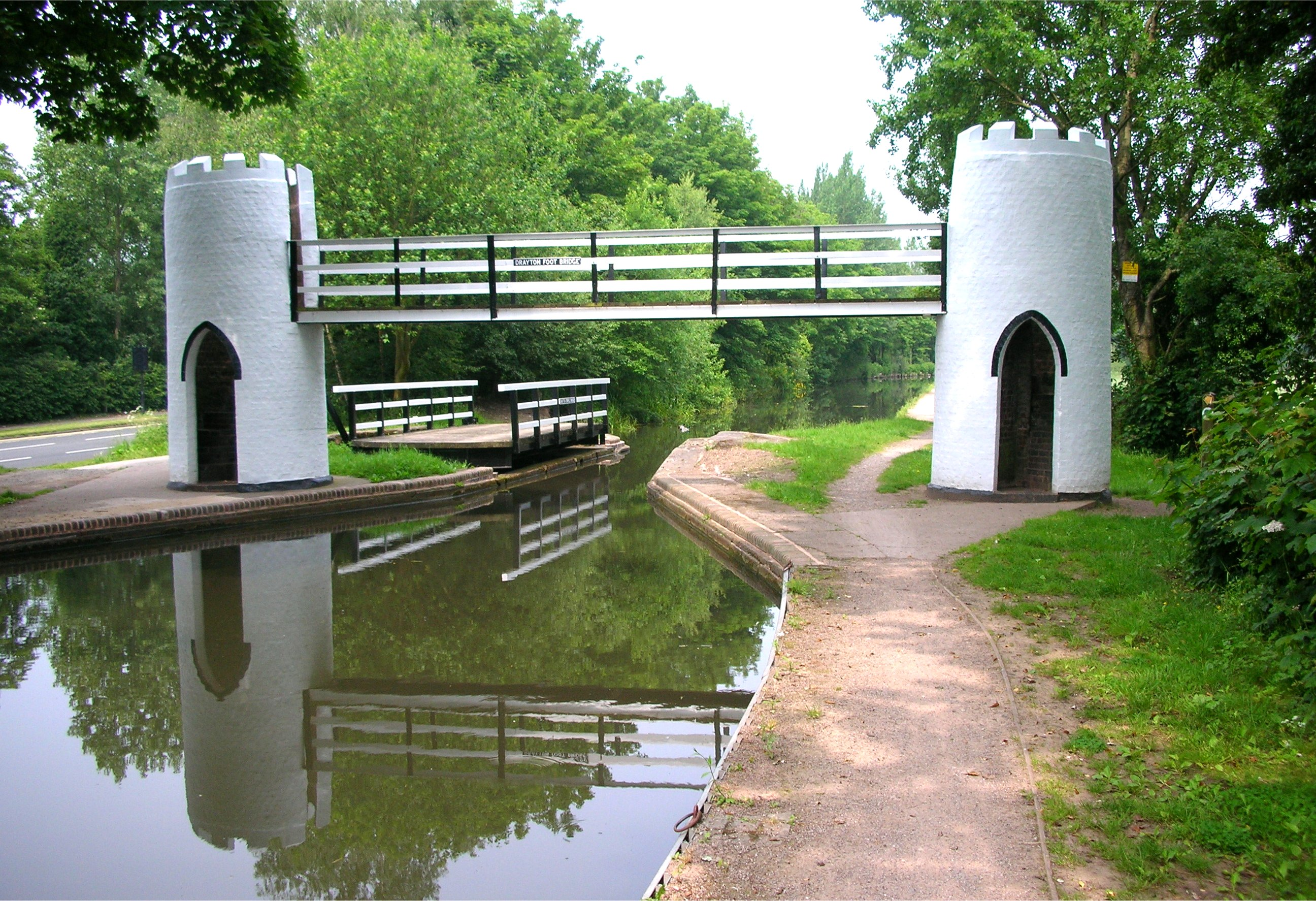 The folly-like footbridge and adjacent swing bridge at Drayton Bassett, near Tamworth, Staffordshire, England, over the Birmingham and Fazeley Canal. Grade II listed (272768). Photographed by me 8 June 2007. Oosoom